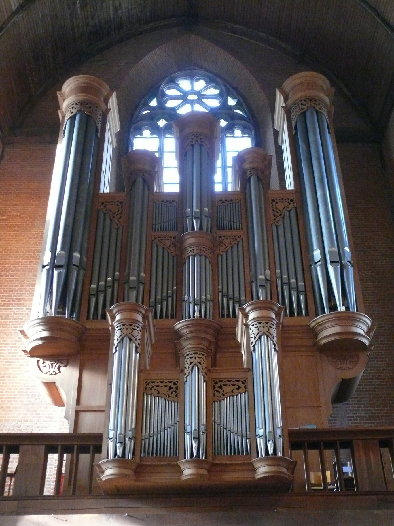 Our-Lady's church in Douai (Nord, France).